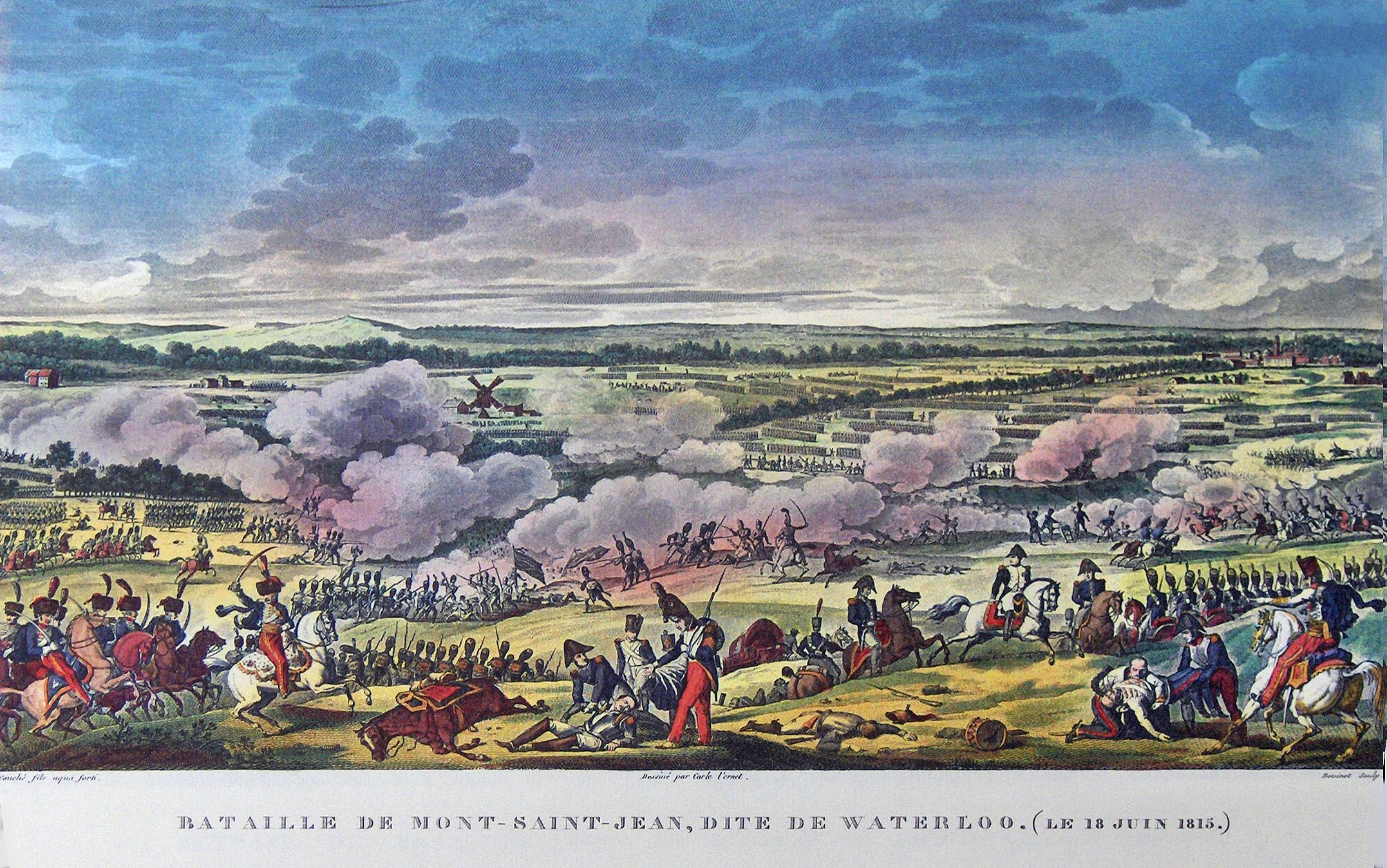 "Battle of Mont Saint-Jean or the Battle of Waterloo" colored litho by Antoine Charles Horace Vernet (called Carle Vernet)(1758 - 1836) and Jacques François Swebach (1769-1823)